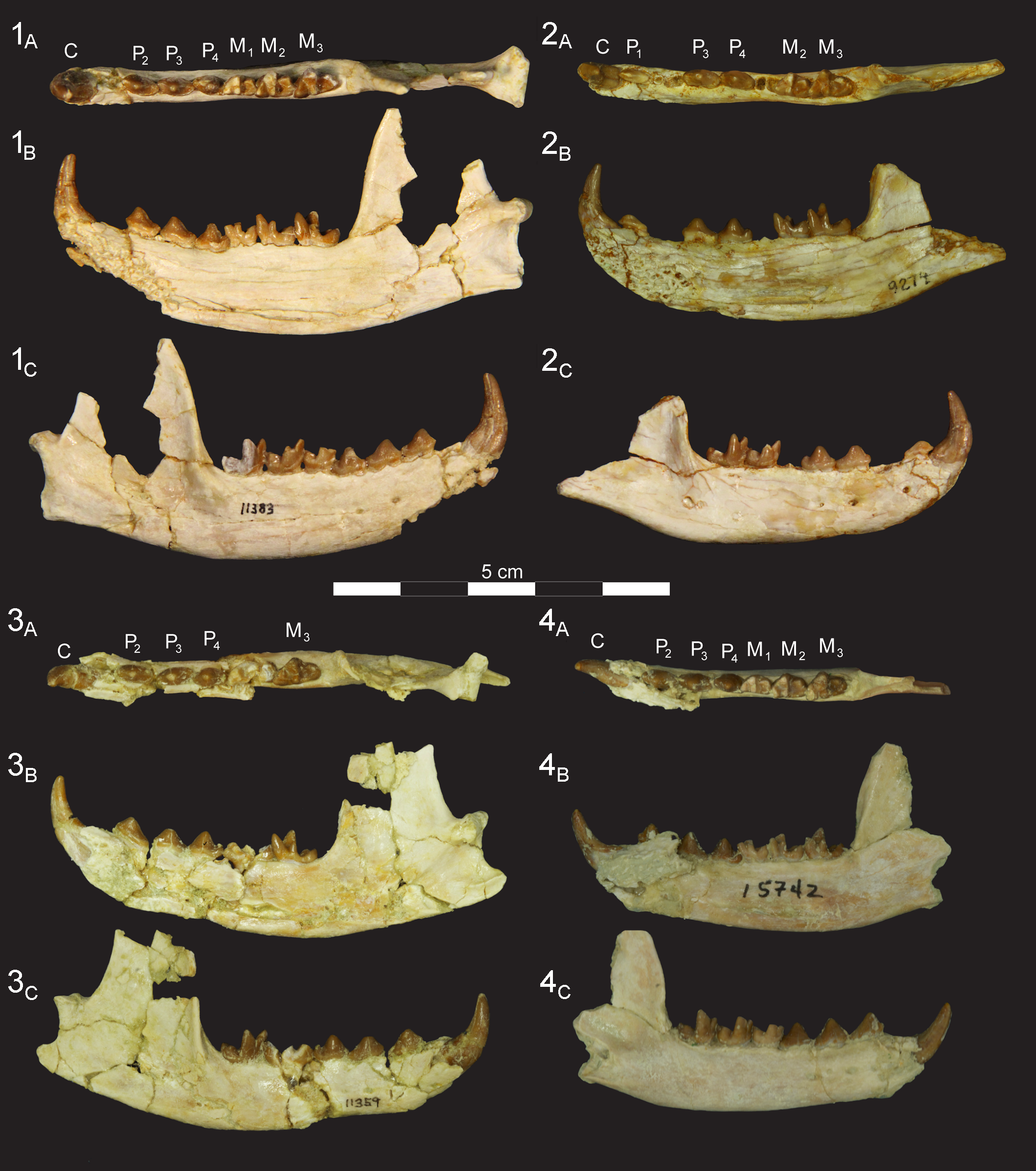 Masrasector, dentaries of Masrasector nananubis; 1: CGM83736 right dentary (holotype; formerly DPC11383) with C, alveoli for P1, P2-M3; 2: DPC9274 right dentary with P1, alveoli for P2, P3-P4, alveoli for M1, M2-M3; 3: DPC11359 right dentary with P2-P4, M3; 4: DPC15742 right dentary with P2-M3; A: in occlusal view; B: lingual view; C: buccal view; Fayum (Egypt)